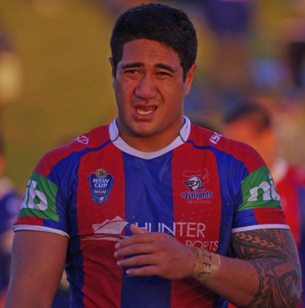 Chanel Mata'utia